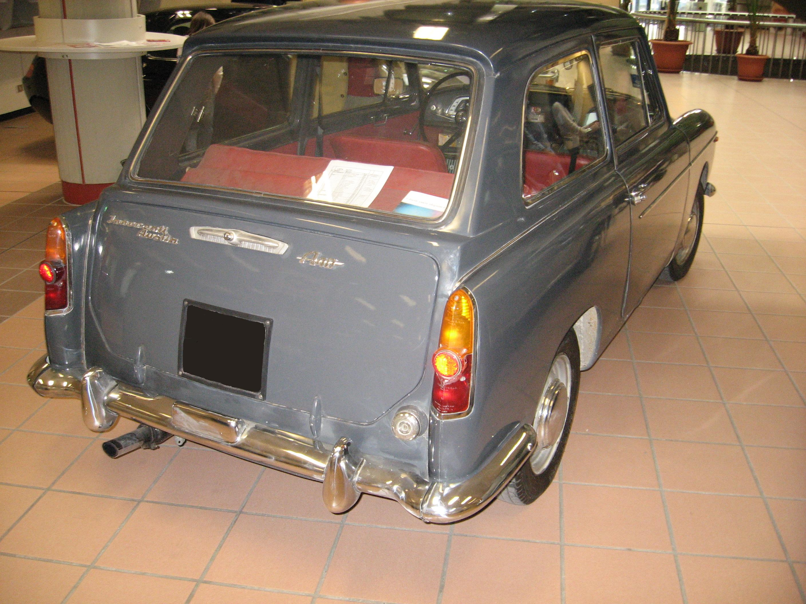 Subject: Innocenti A40 (also manufactured as Austin A40), rear view Author: Luc106 Date: 18 march 2007 City/Country: Forlì (Italy) Event: Old Time Show I release all rights in the public domain.